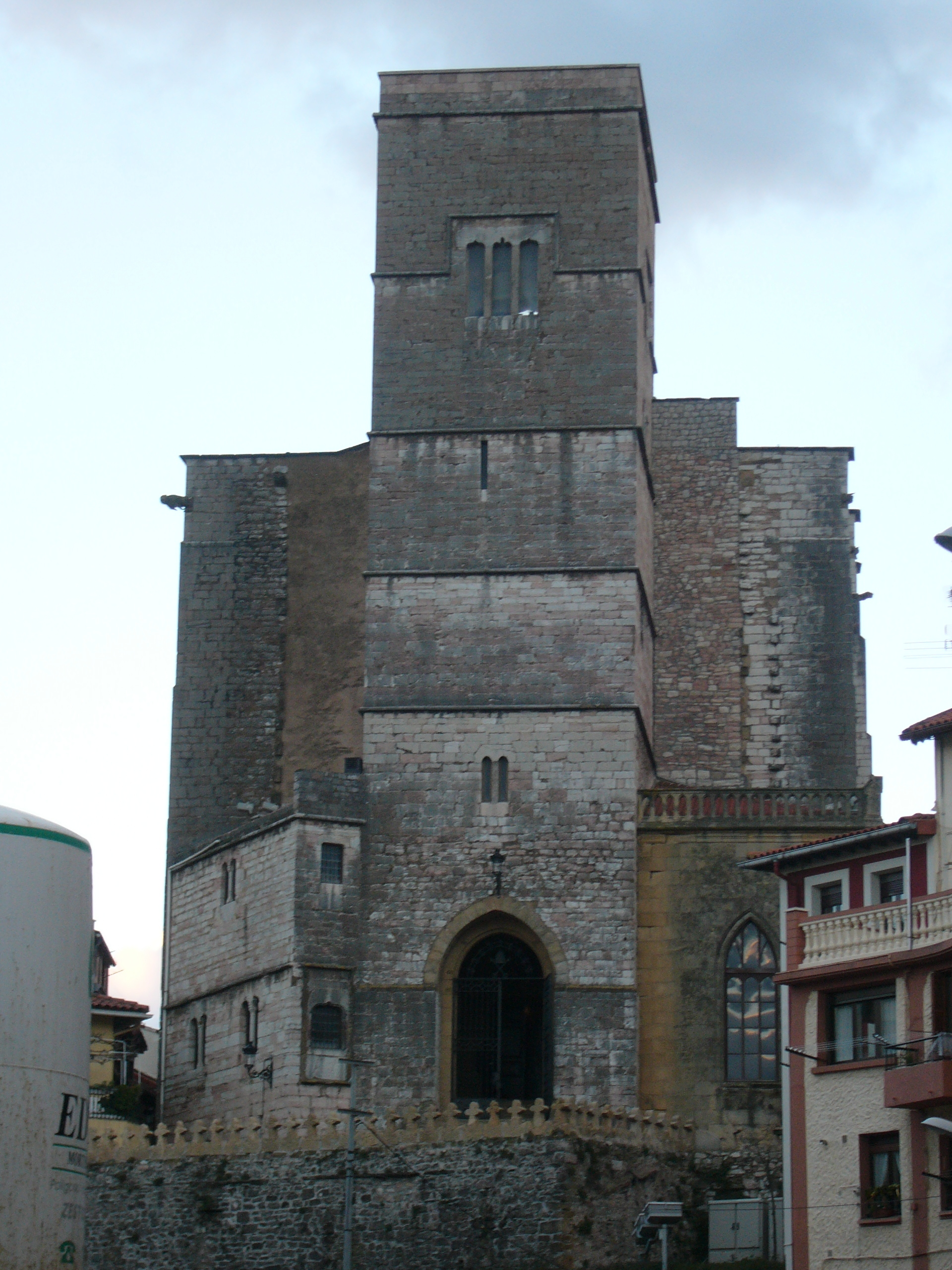 Church of Saint Peter in Zumaia (Gipuzkoa)